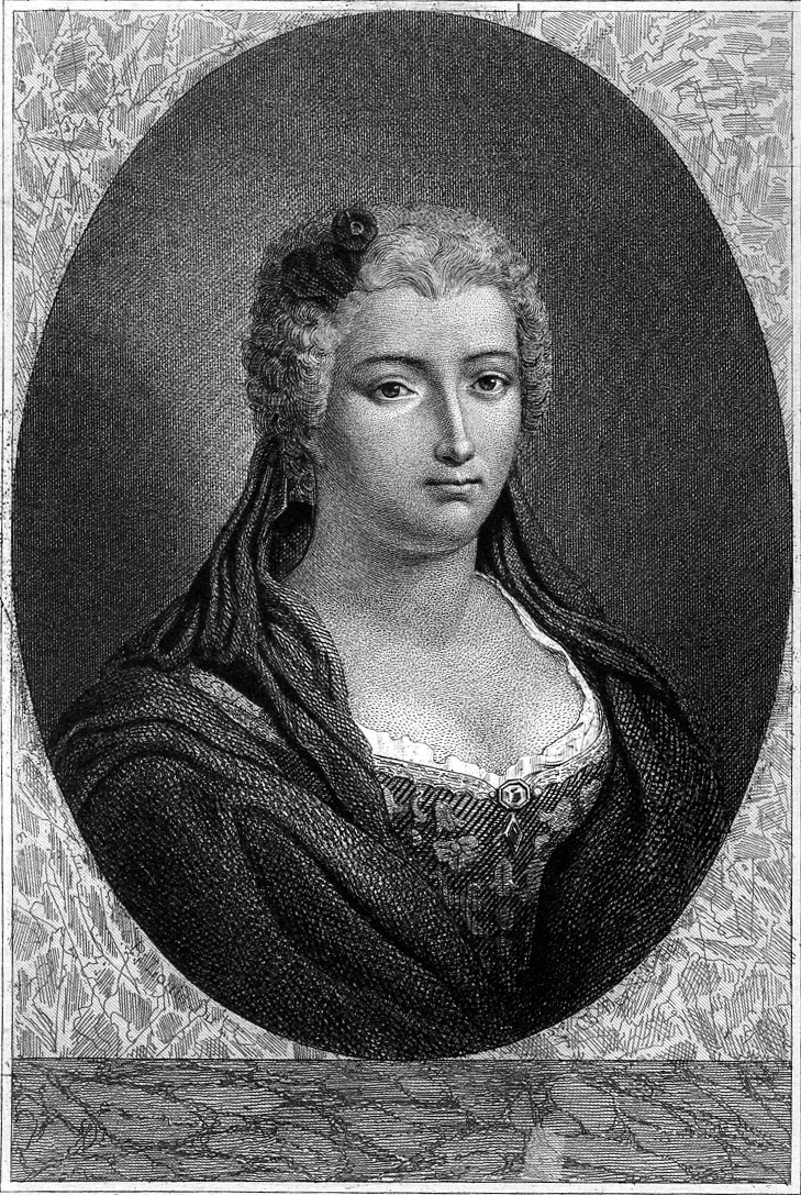 Louise Cavelier Levesque (1703-1743), French poetess, novelist and playwright.